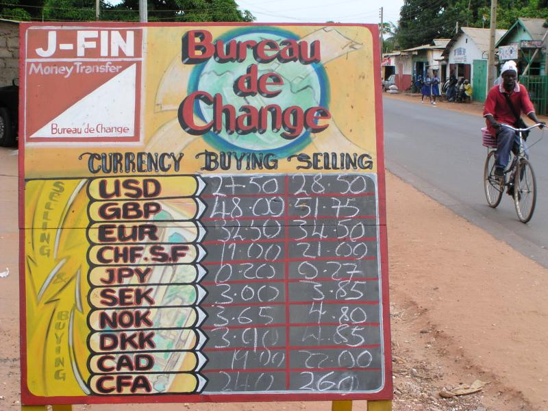 Money changers Bakau Newtown